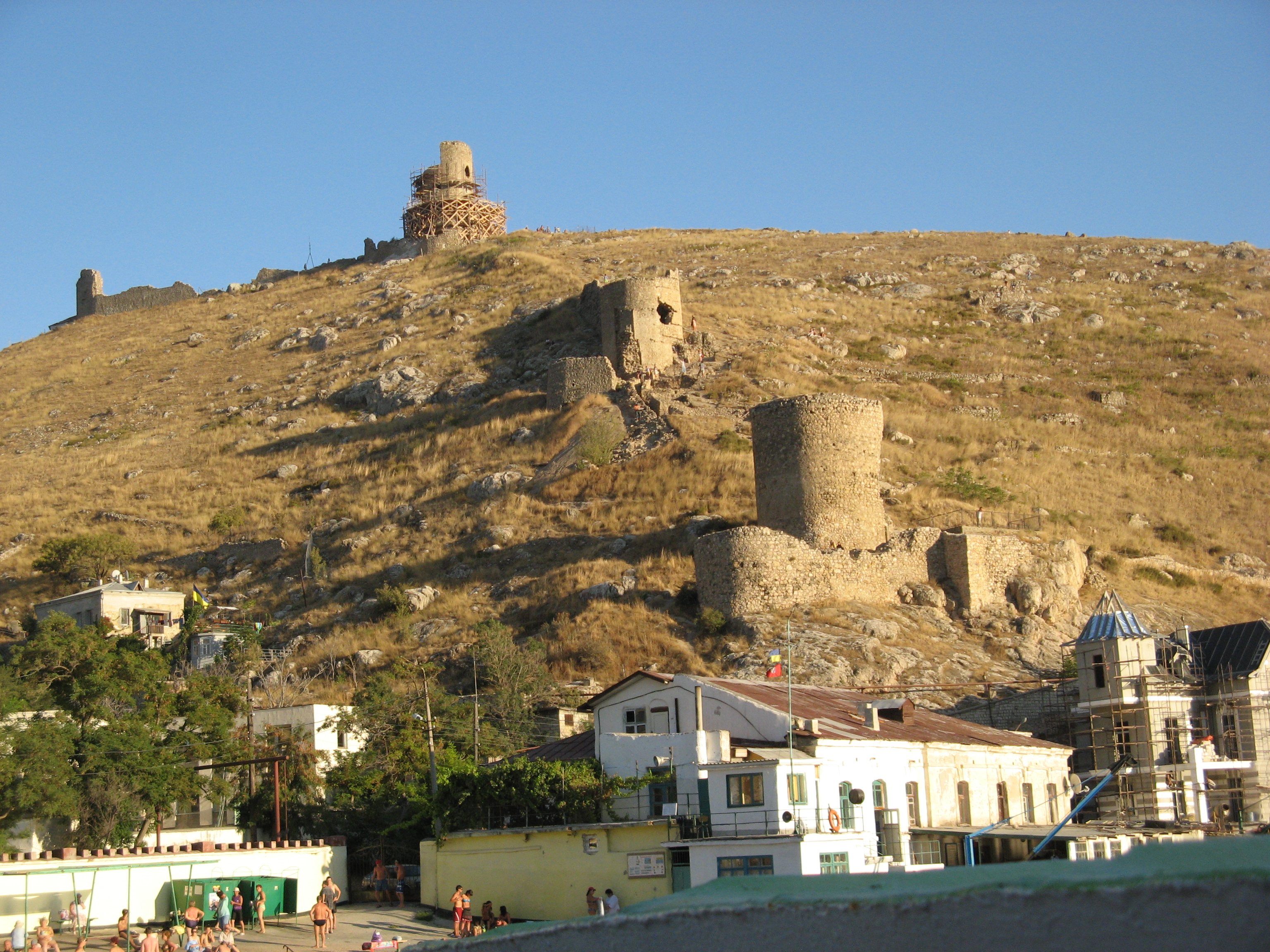 Cembalo fortress; Balaklava town, Crimea, Ukraine